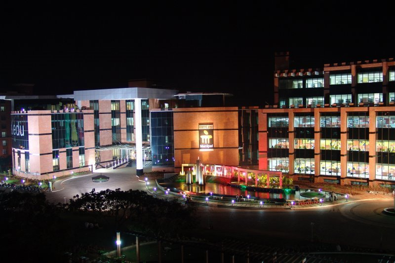 Edu Building, administrative block and the central library, Kasturba Medical College, Manipal